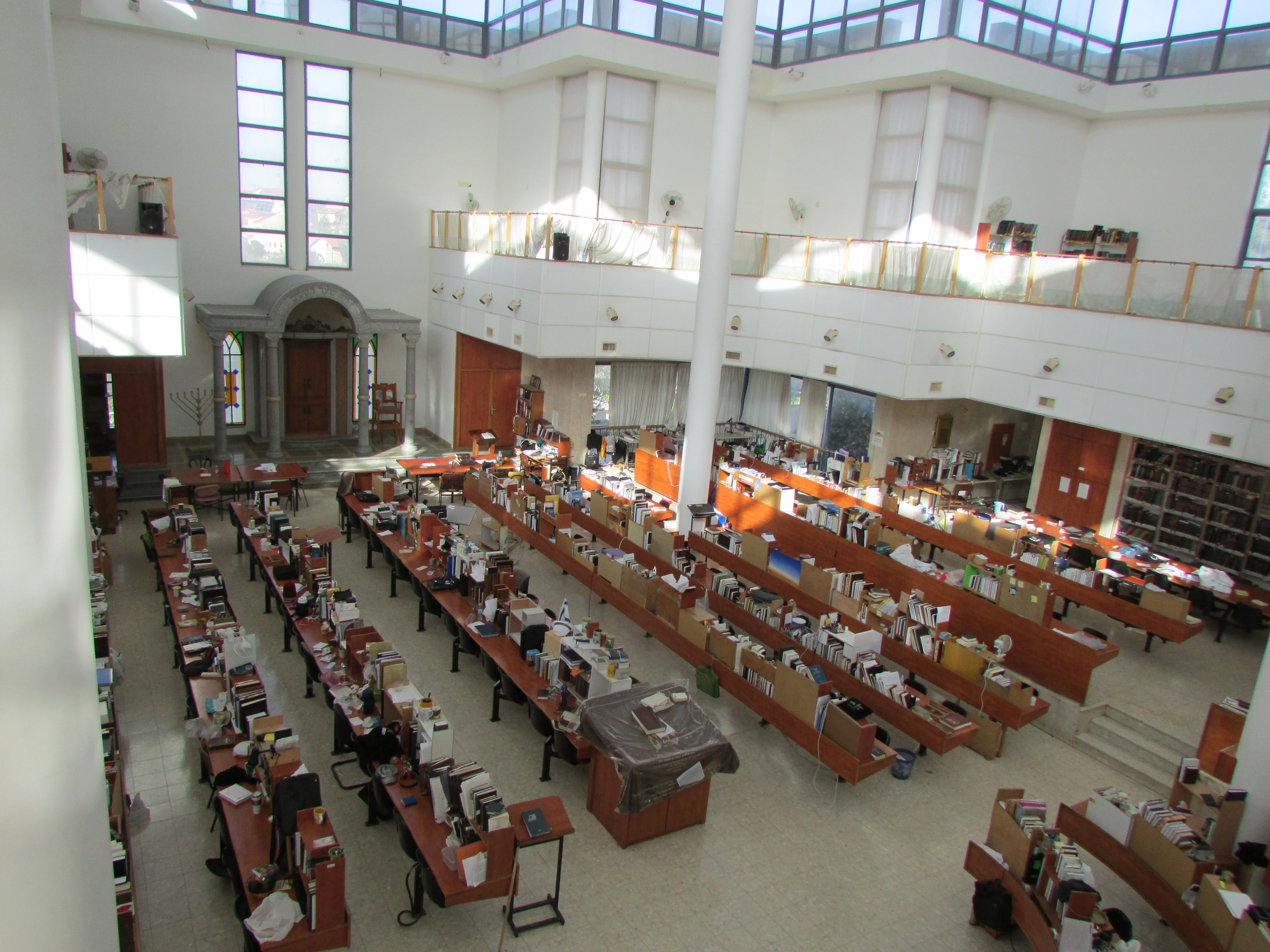 Otniel Yeshiva